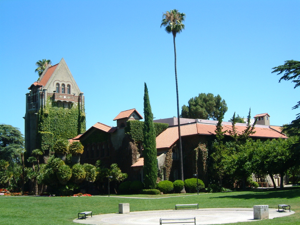 Tower Hall and Morris Dailey Auditorium on the campus of San Jose State University. Photo by John Pozniak on July 5, en:2004.